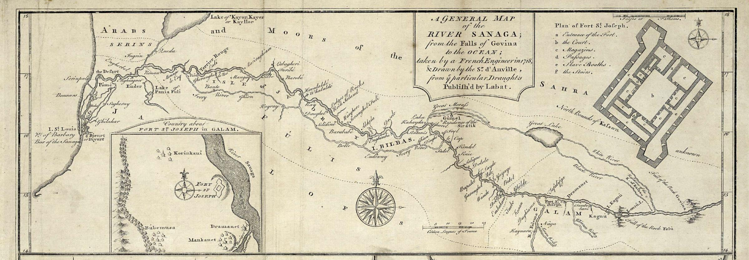 Map of the mouth of the Senegal River and two plans of Fort St. Joseph in Galam. A General Map of the River Sanaga; from the Falls of Govina to the Ocean. Country about fort St. Joseph in Galam. Plan of Fort St. Joseph. Key: a-f.